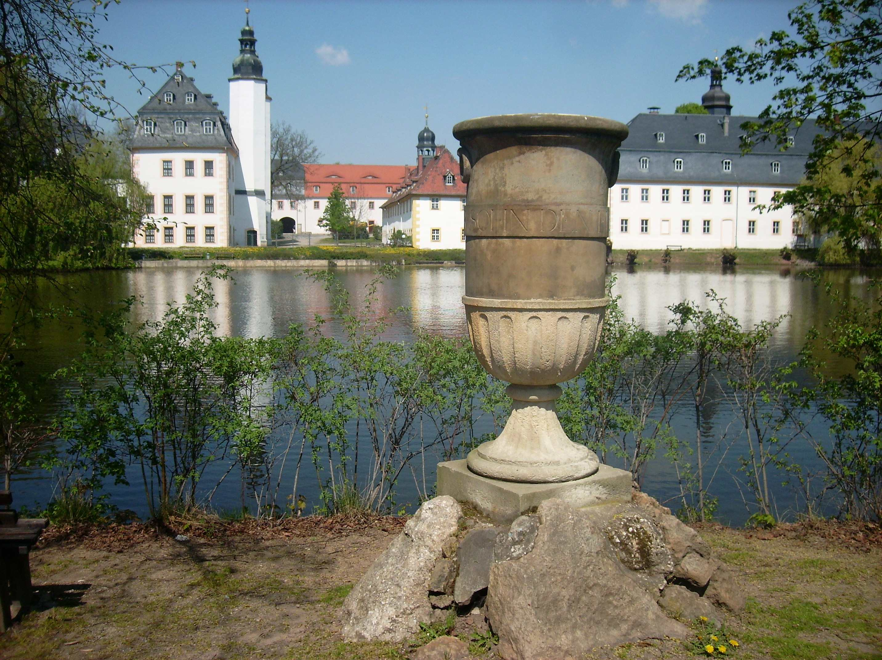 Memorial vase opposite Blankenhain Castle (Crimmitschau, Zwickau district, Saxony)